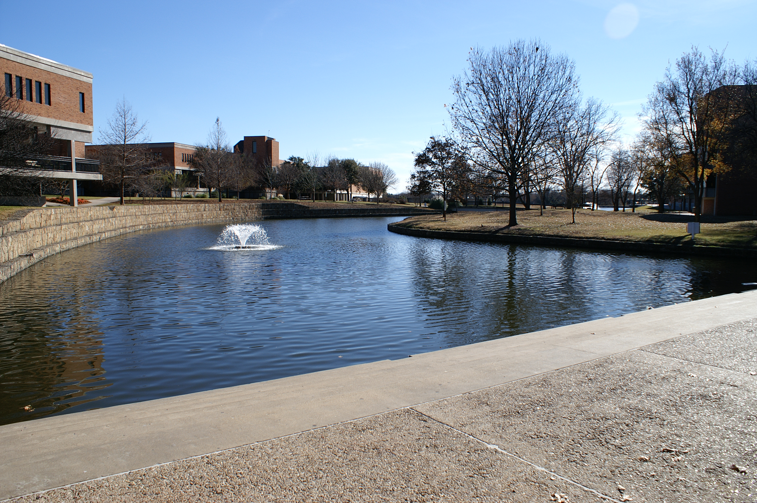 View of brook from outside Richland College student lounge in 2008.